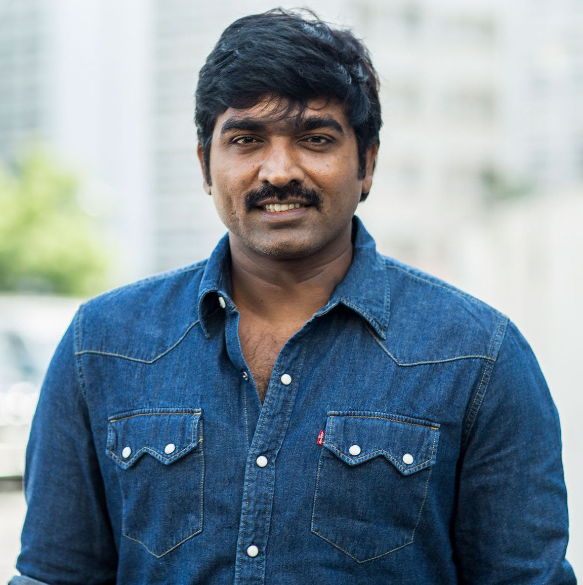 Vijay Sethupathi at Dharmadurai Audio launch